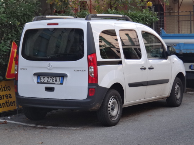 These will reach Australia in the middle of 2014 and I can already tell they'll be a good seller for Mercedes-Benz in Australia, like with most cars that have the 3 pointed star on the front of them.